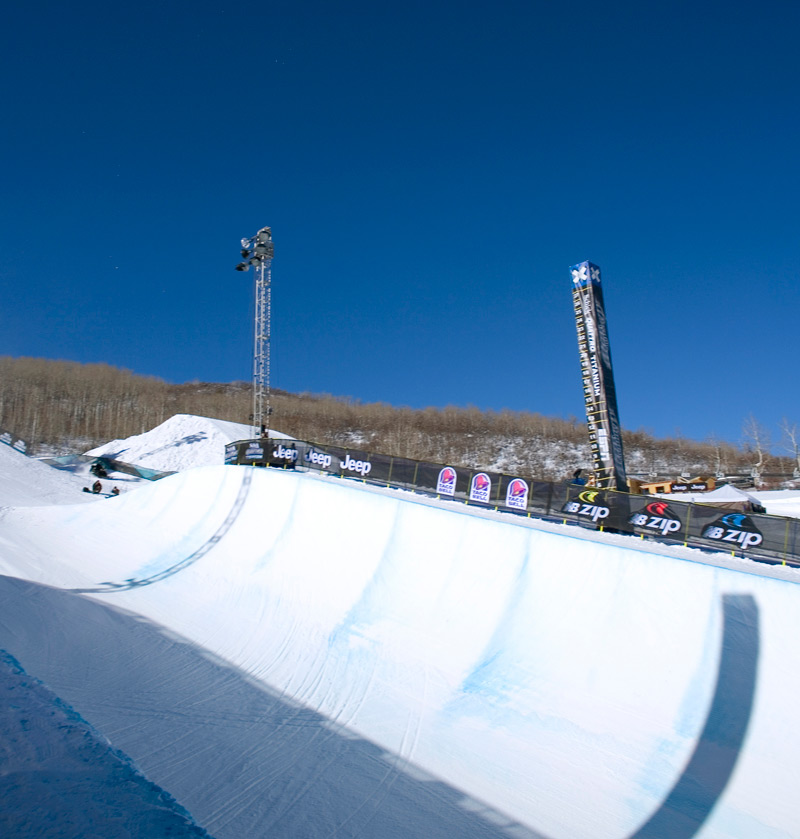 Snowpipe